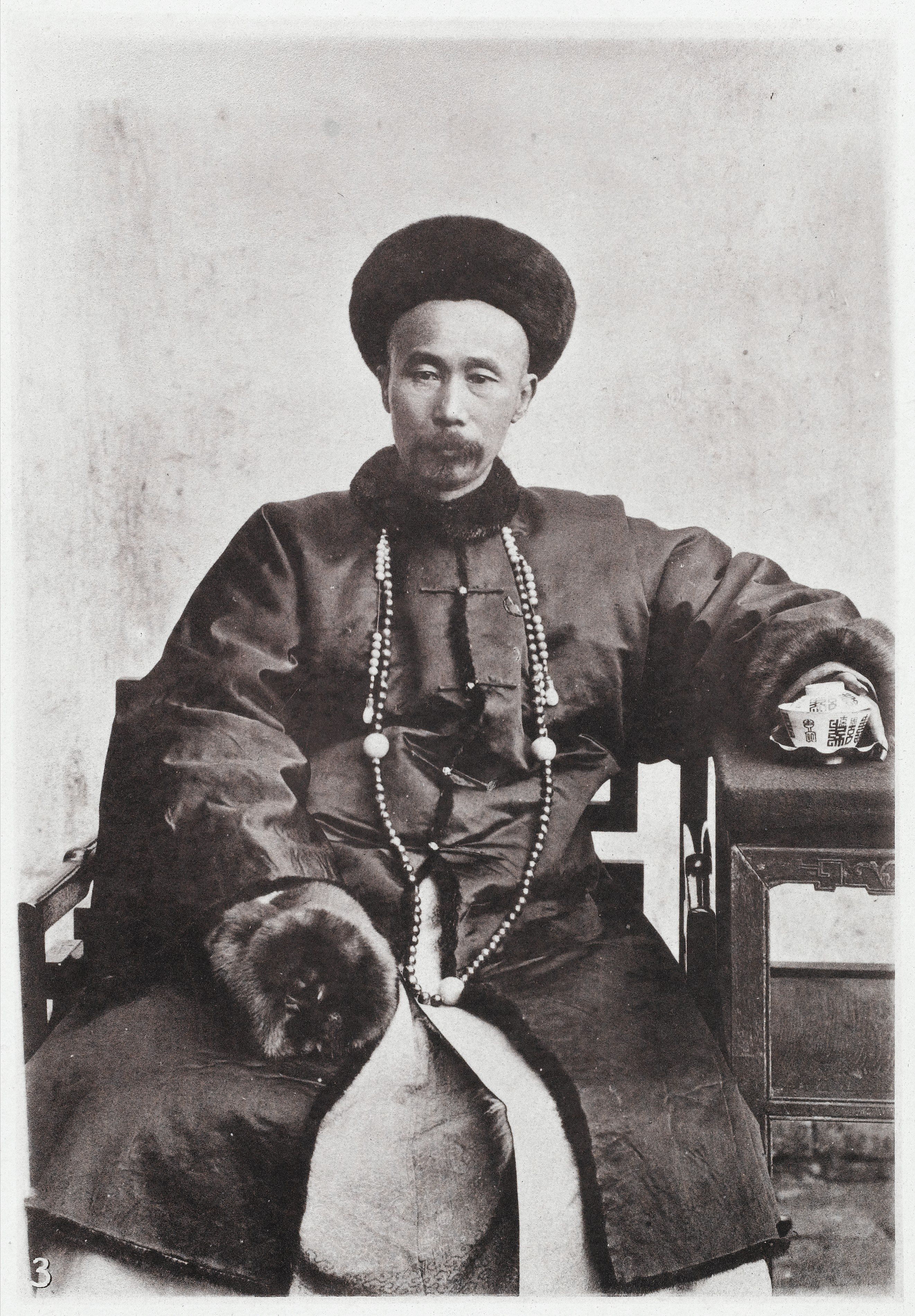 Li-hung-chang, Governor General of Pei-chih-li General Collections Keywords: John Thomson; Government; China; Costume; Clothes; Manchu (Qing) Dynasty